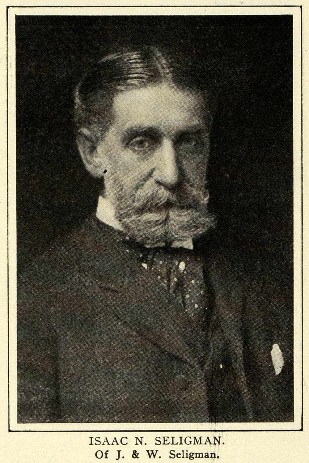 Isaac Newton Seligman 1907